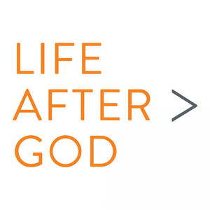 Logo of Life After God, a project for apostates by American pastor turned atheist Ryan J. Bell. Also the logo of the Life After God podcast.